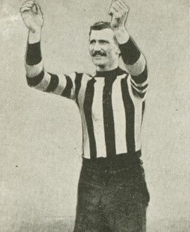 Photograph of Les Hughes in 1910